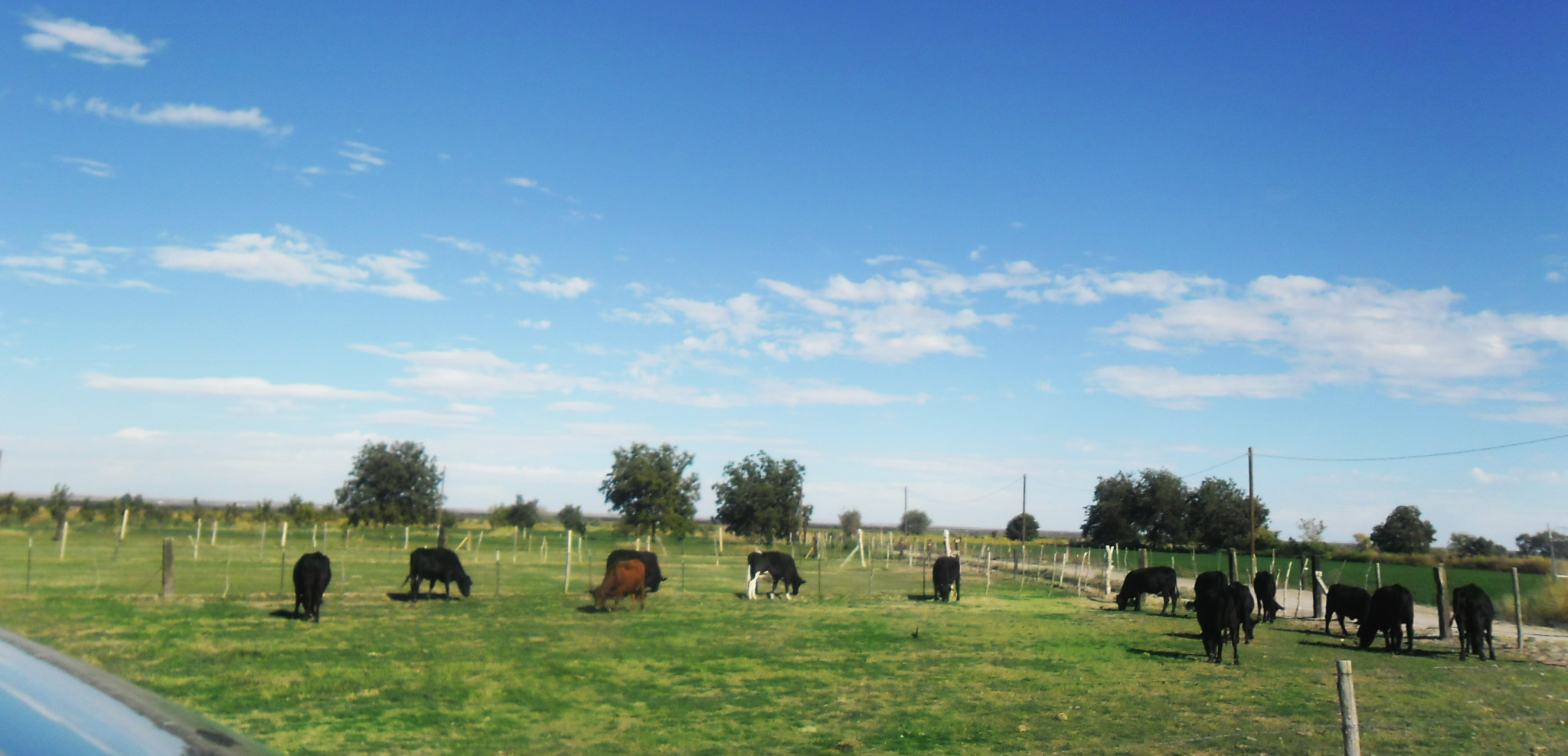 Ciudad Juarez